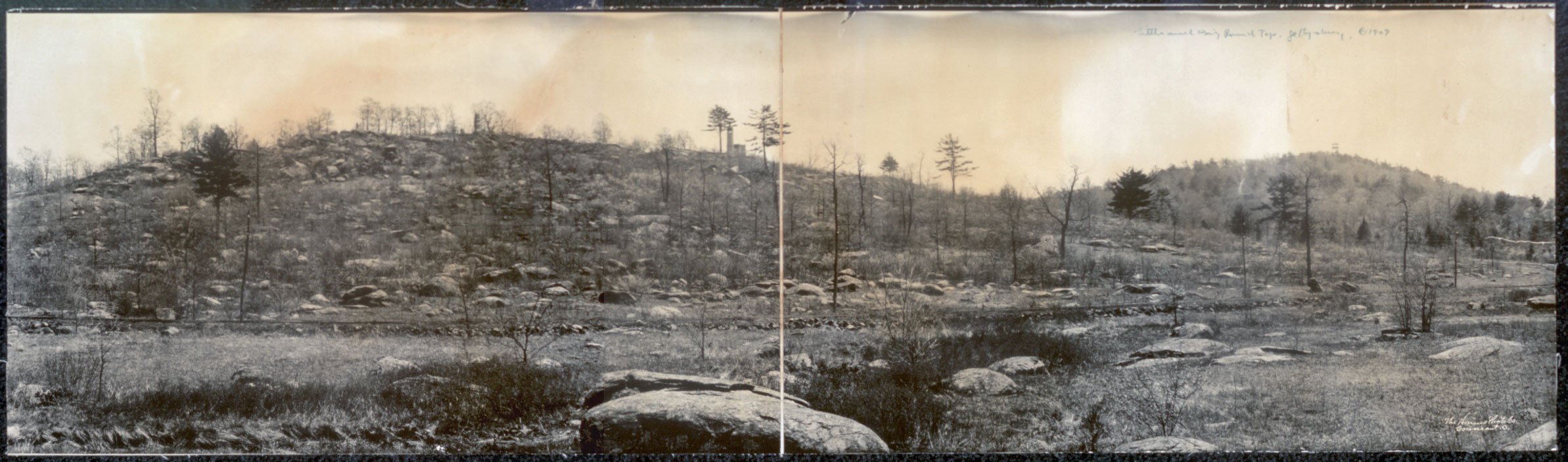 Item Title Little and Big Round Top, Gettysburg. Created/Published c1909. Notes Copyright deposit; Haines Photo Co.; May 24, 1909. Copyright claimant's address: Conneaut, O. Subjects United States--History--Civil War, 1861-1865--Battlefields Gelatin silver prints. Panoramic photographs. United States--Pennsylvania--Gettysburg. Related Names Haines Photo Co. (Conneaut, Ohio), copyright claimant. Medium 1 photographic print : gelatin silver ; 10 x 35 in. Call Number PAN US GEOG - Pennsylvania no. 86 REPRODUCTION NUMBER LC-USZ62-40267 DLC (b&w film copy neg. of left section made from another print) LC-USZ62-40268 DLC (b&w film copy neg. of right section made from another print) Special Terms of Use No known restrictions on publication. Part of Panoramic photographs (Library of Congress) Repository Library of Congress Prints and Photographs Division Washington, D.C. 20540 USA Digital ID (digital file from intermediary roll film copy) pan 6a09504